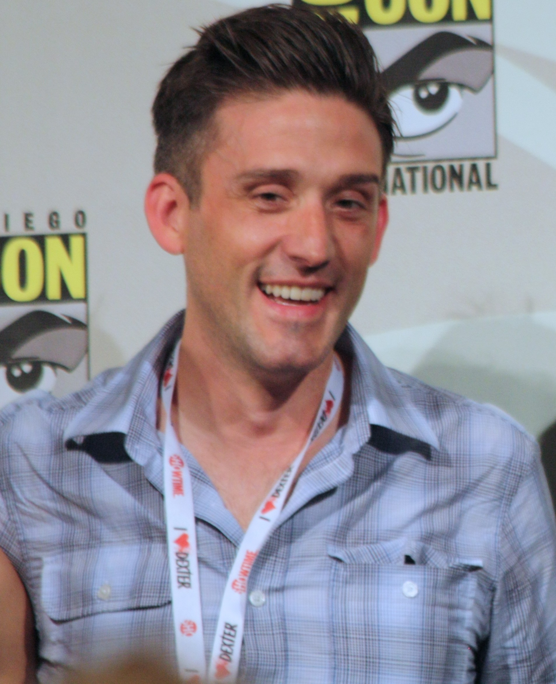 Jon Bokenkamp & John Fox The Blacklist Panel at the 2013 Comic Con